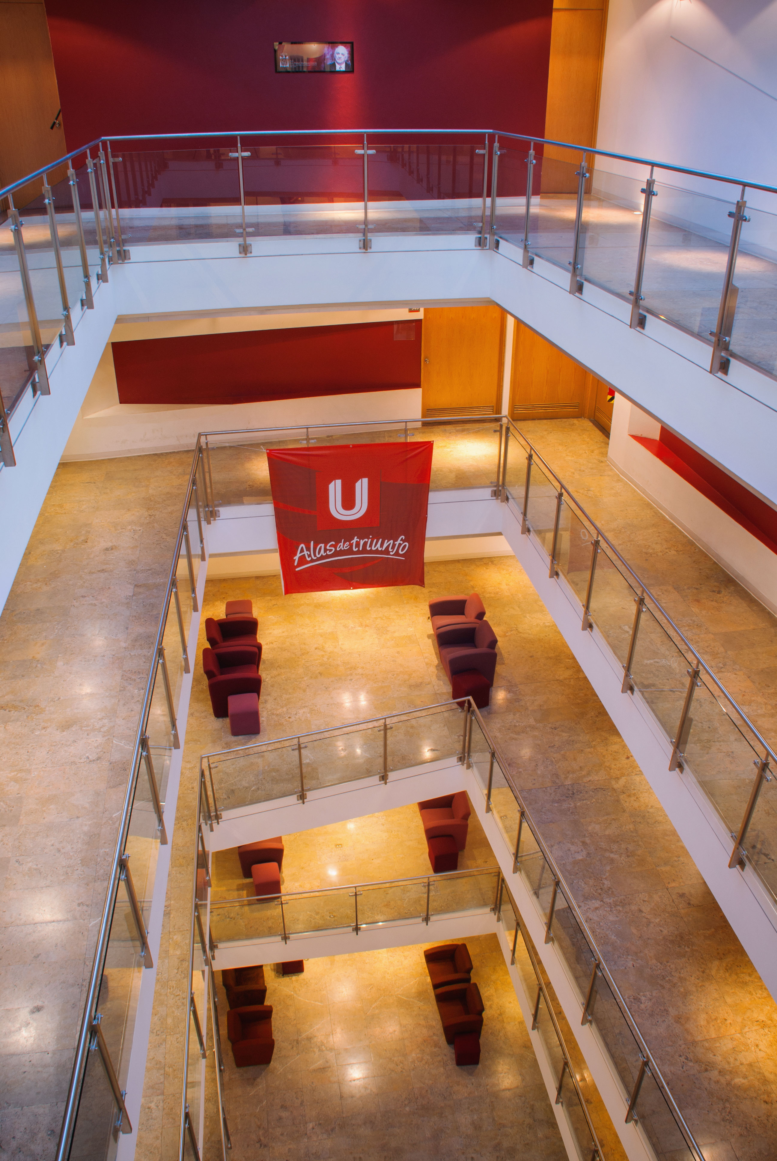 Centro Interdisciplinario de Posgrados